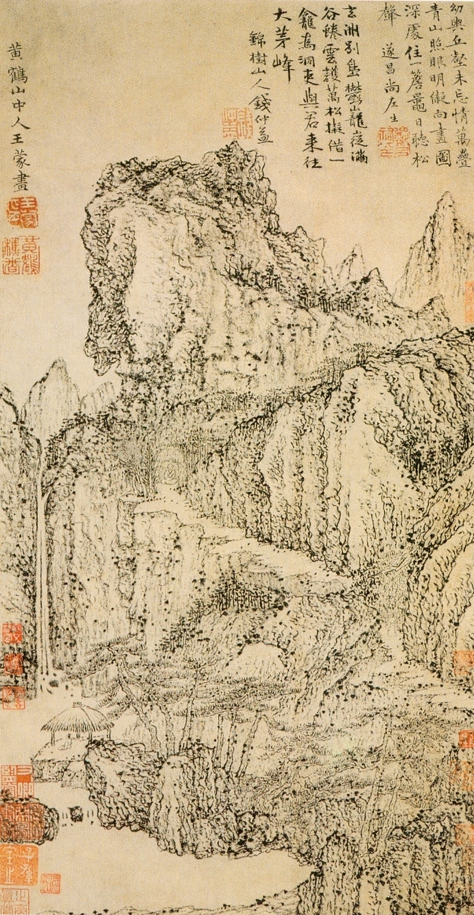 Wang_Meng._Landscape._54,4x28,3_cm._Shanghai_Museum